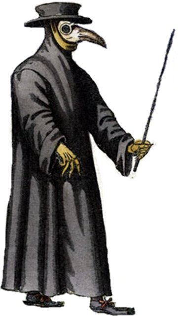 Seventeenth-century "Beak Doctor"